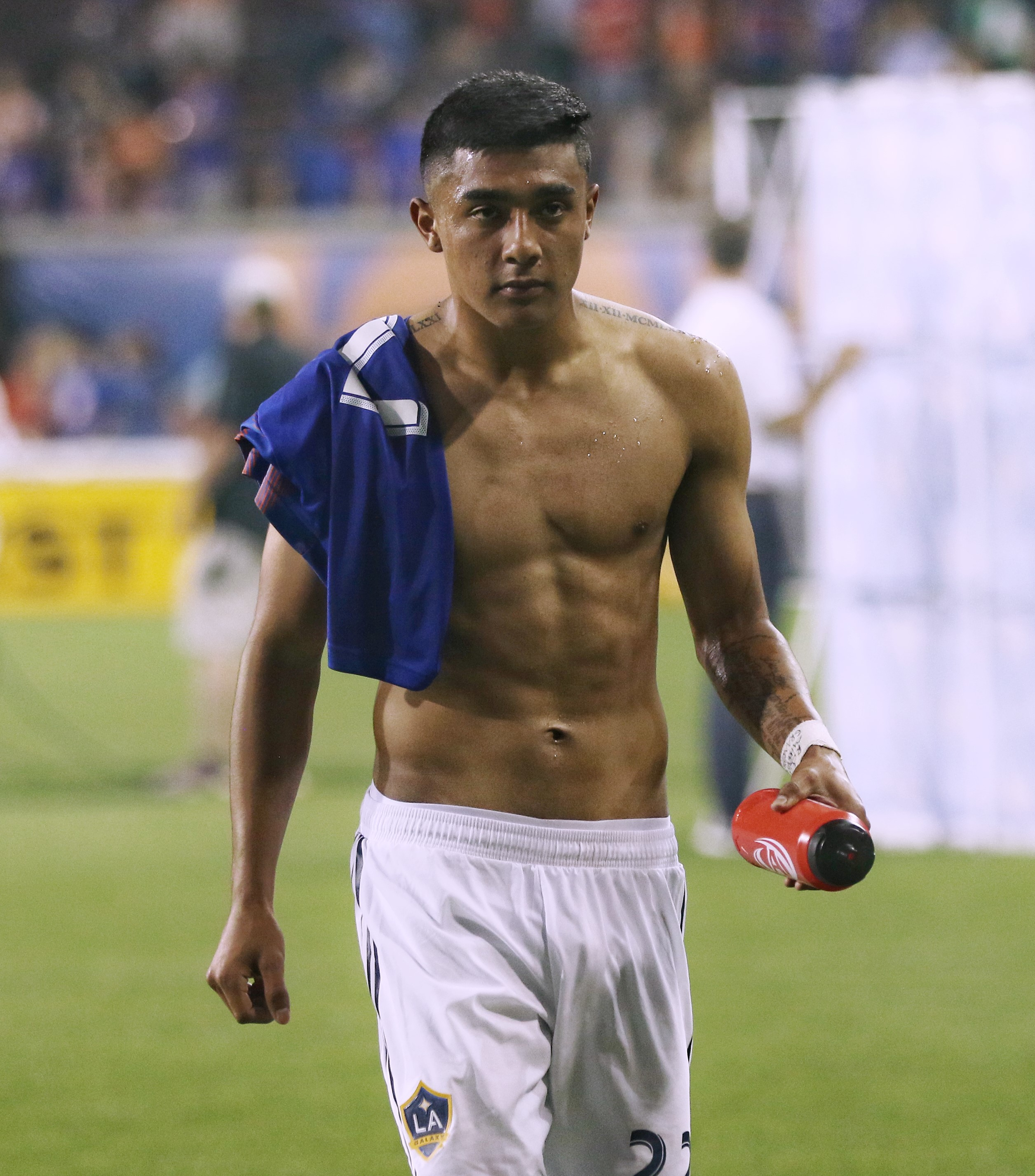 Julian Araujo on June 22, 2019, after a match against FC Cincinnati.